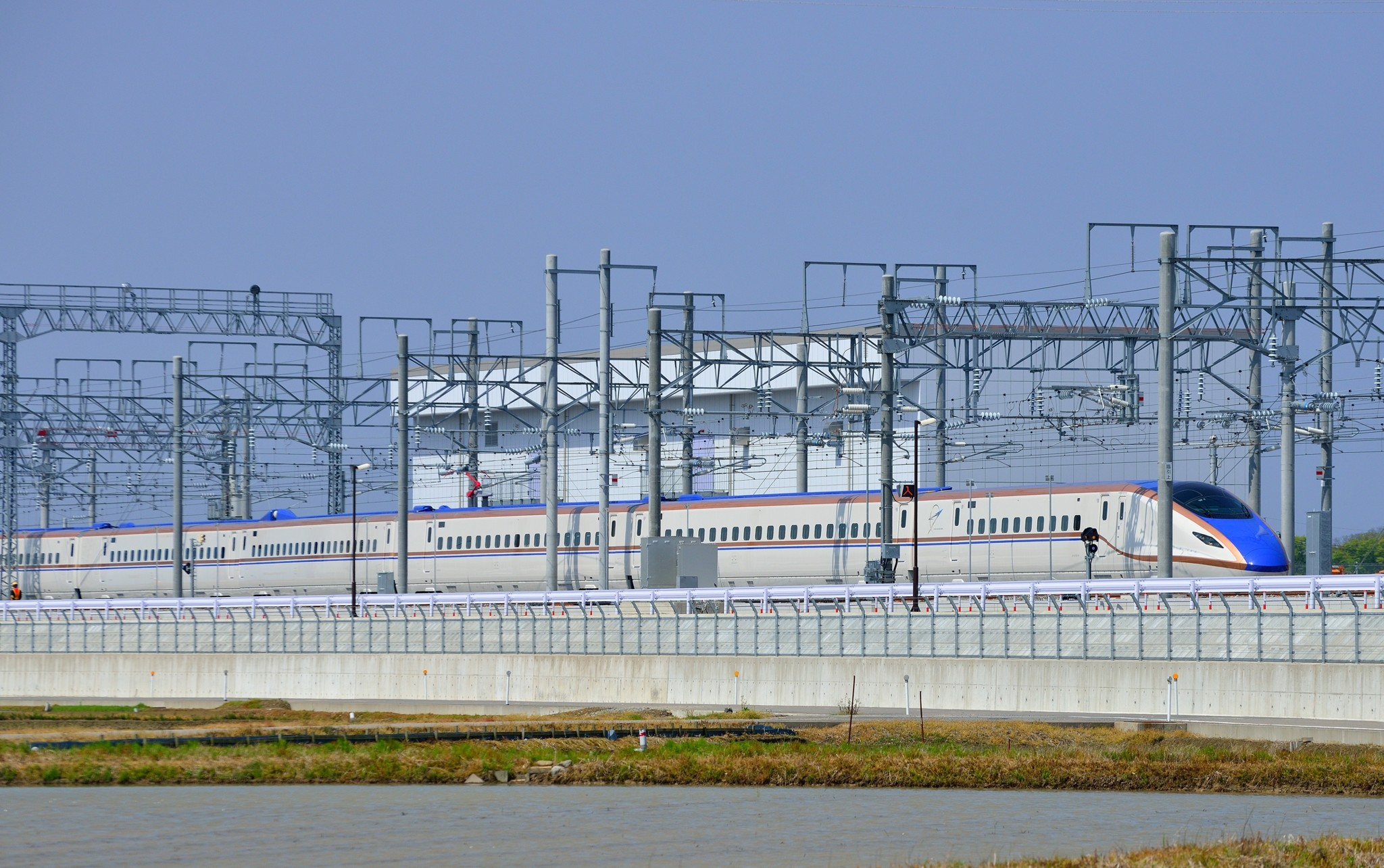 The first JR West W7 series shinkansen set delivered, W1, at the Hakusan Car Maintenance Center on the Hokuriku Shinkansen